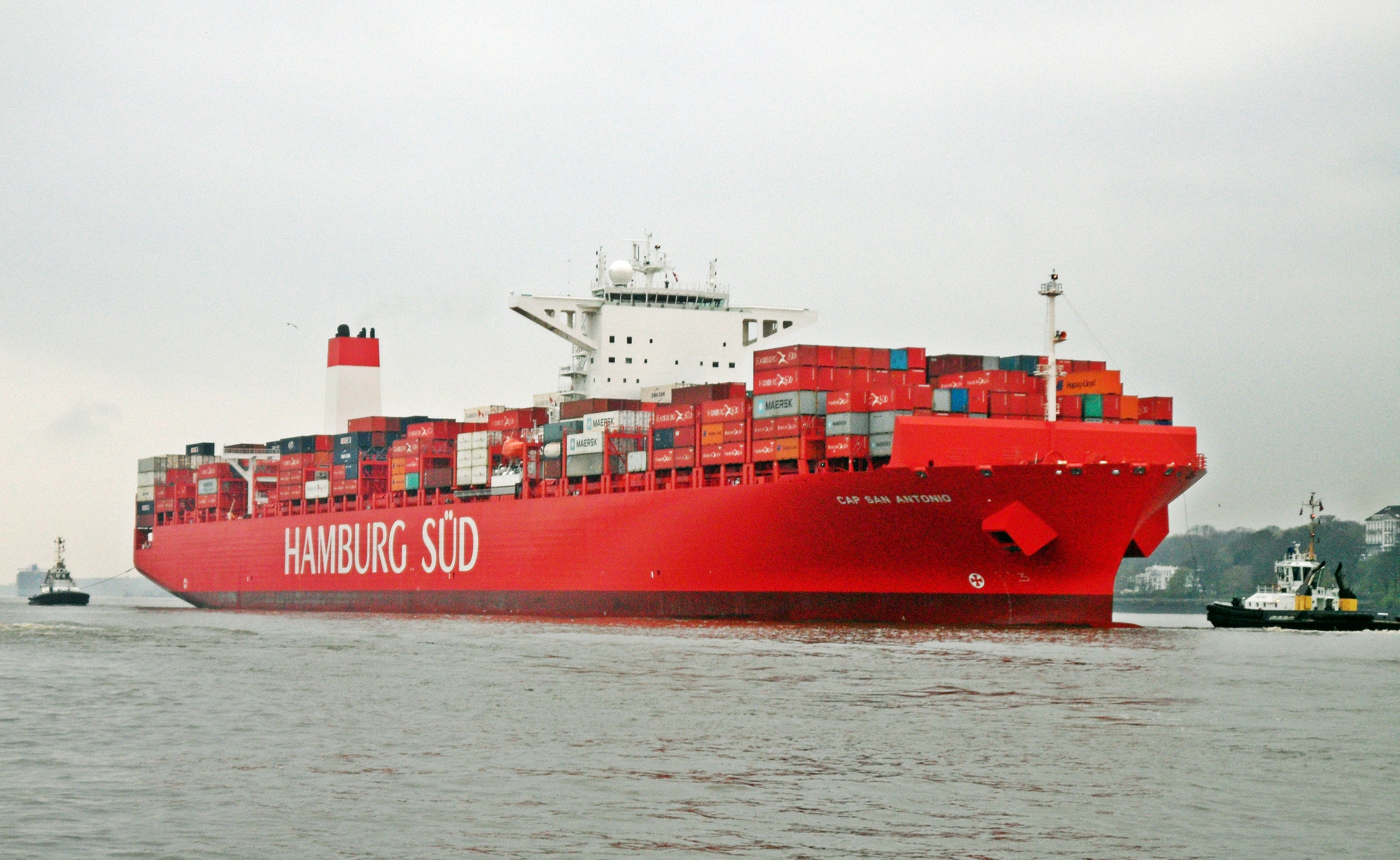 The new container ship Cap San Antonio with destination Port of Hamburg in April 2014